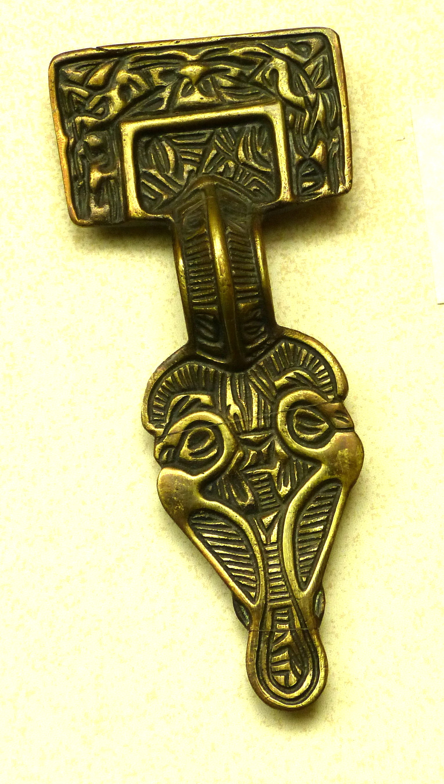 Weimar ( Thuringia ). Museum for Prehistory in Thuringia: Ancient Germanic fibula ( 4th/5th century AD ) from Mühlhausen.